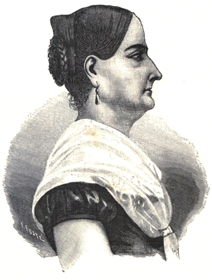 Josefa Ortiz de Dominguez